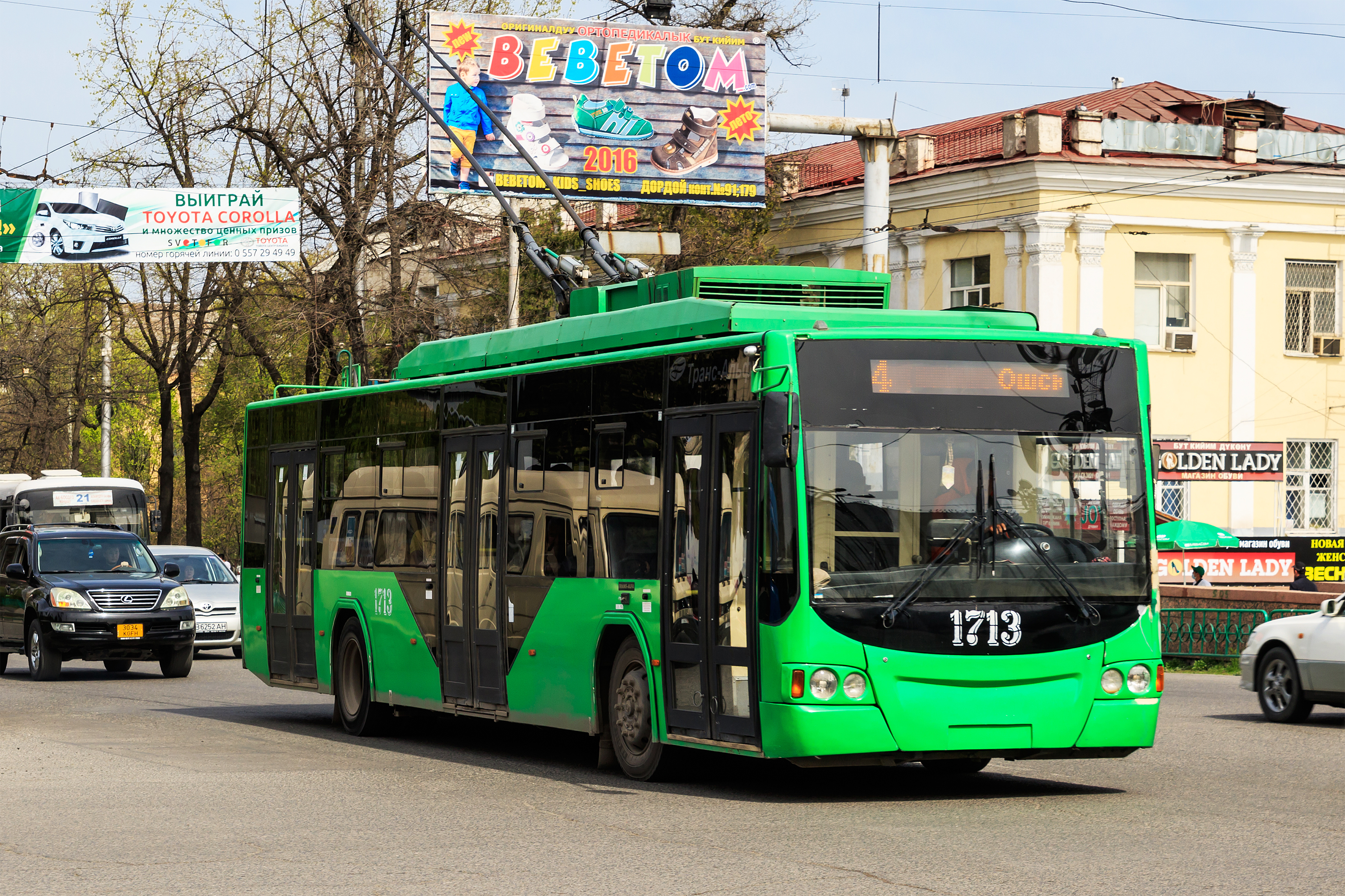 A trolley at Chuy Prospekt / Yusup Abdrahmanov Street in Bishkek, Kyrgyzstan